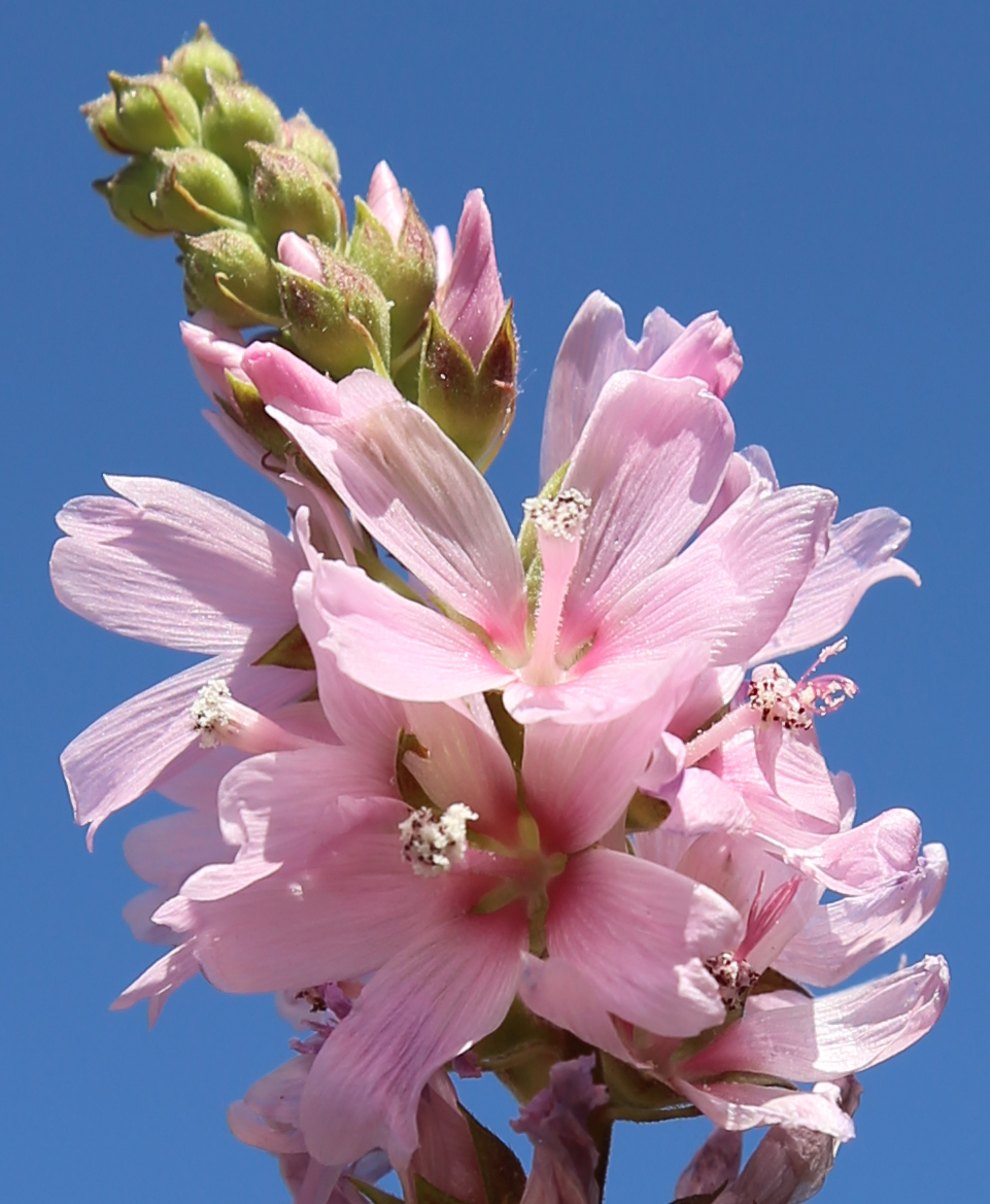 Spicate Oregon checker bloom (Sidalcea oregona, ssp. spicata), closeup of pink flowers with 5 end-notched petals and a fused central tube of stamens. At the Piute Pass trailhead, 9,500 ft (2,900 m), John Muir Wilderness, Sierra Nevada, California.